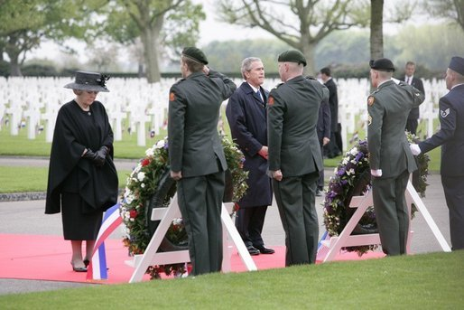 Queen Beatrix of The Netherlands and President George W. Bush pause in respect before wreaths at the Netherlands American Cemetery Sunday, May 8, 2005, in Margraten, honoring those who served during World War II.